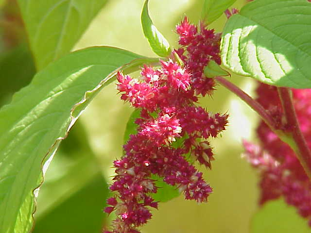 Species: Amaranthus tricolor Family: Amaranthaceae Image No. 1